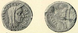 AR Denarius. Rome mint; Publius Sepullius Macer, moneyer. Wreathed and veiled head right; CAESAR DICT PERPETVO around Venus Victrix standing left, holding crowning Victory and scepter; to lower right, round shield set on ground; [P · SEPVLLIVS] MACER around. Crawford 480/10; Alföldi Type VIII, 24-6 (A12/R3); CRI 107a; Sydenham 1073; Kestner -; BMCRR Rome 4169-71; RSC 38. Enlarged from the original owned by G. N. Olcott. Silver coin bearing the head of Julius Caesar. This coin, a denarius, worth about seventeen cents, represents Caesar as Pontifex Maximus. Together with all the other Roman coins bearing Caesar's image, it was struck in the year before his death—44-45 B.C. The fact that Caesar placed his image on these coins may have strengthened the suspicion of his enemies that he wished to make himself king.